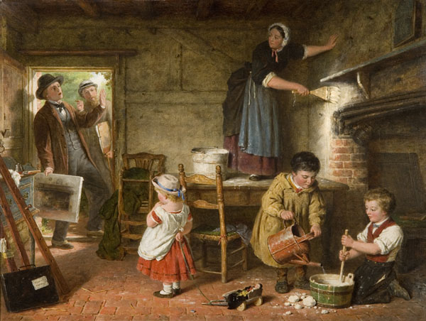 The painting 'The Dismayed Artist' by Frederick Daniel Hardy. Oil on canvas, 1866.